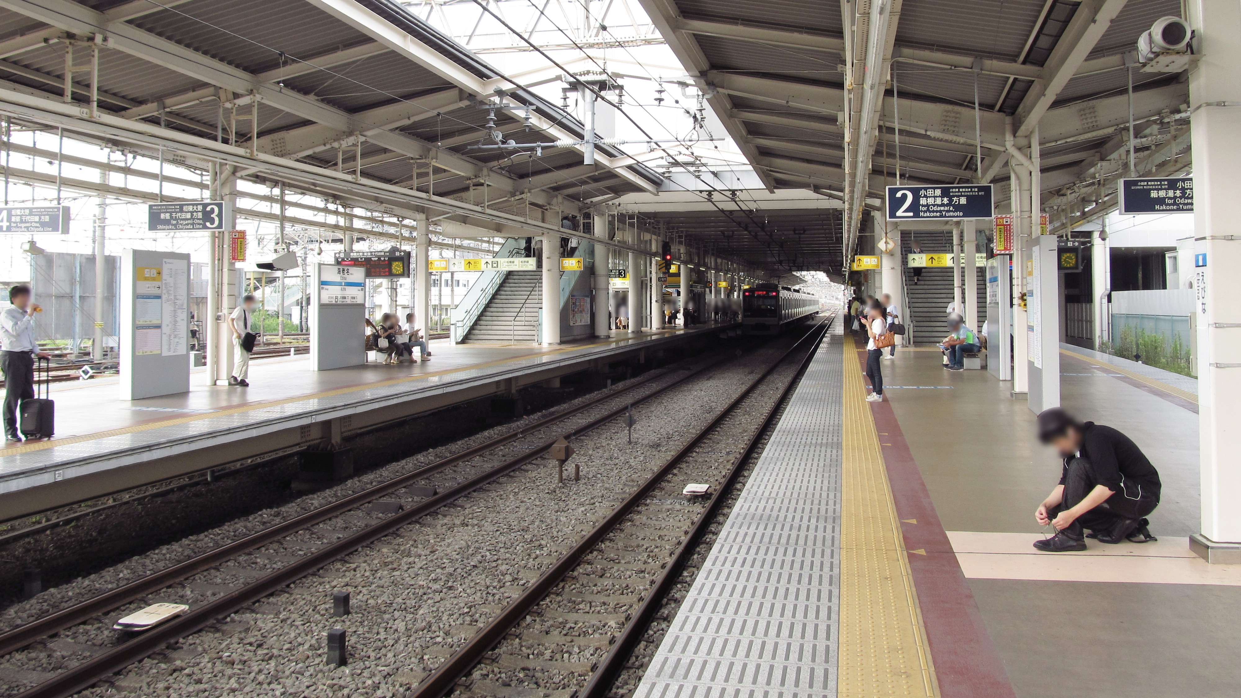 The platforms at Ebina Station on the Odakyū Electric Railway Odawara Line in Ebina city, Kanagawa, Japan